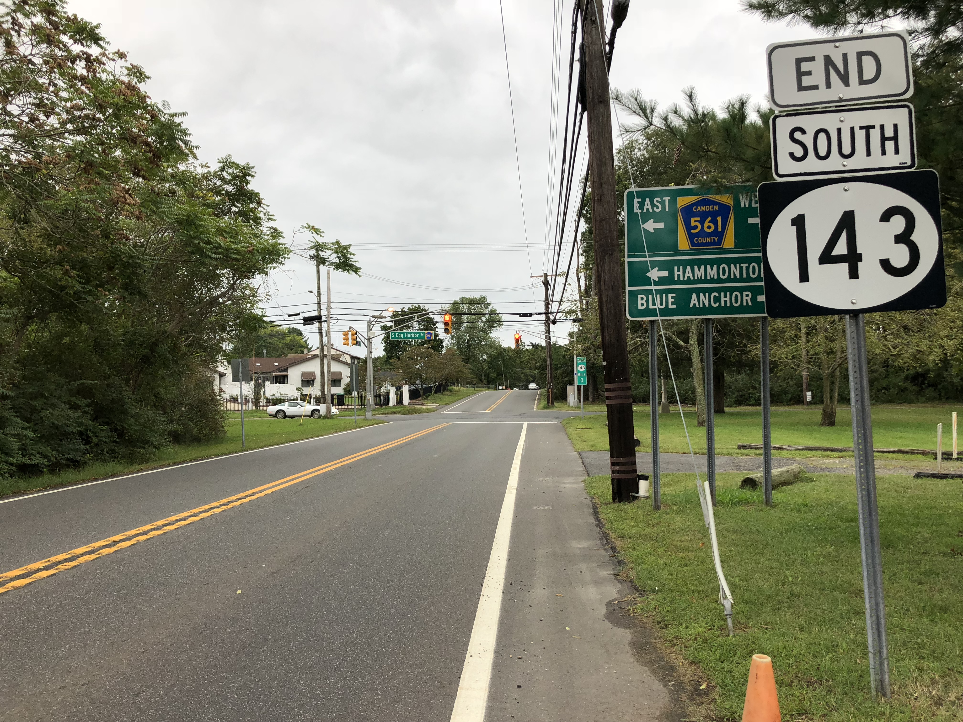 View south along New Jersey State Route 143 (Spring Garden Road) just north Camden County Route 561 (Egg Harbor Road) in Winslow Township, Camden County, New Jersey